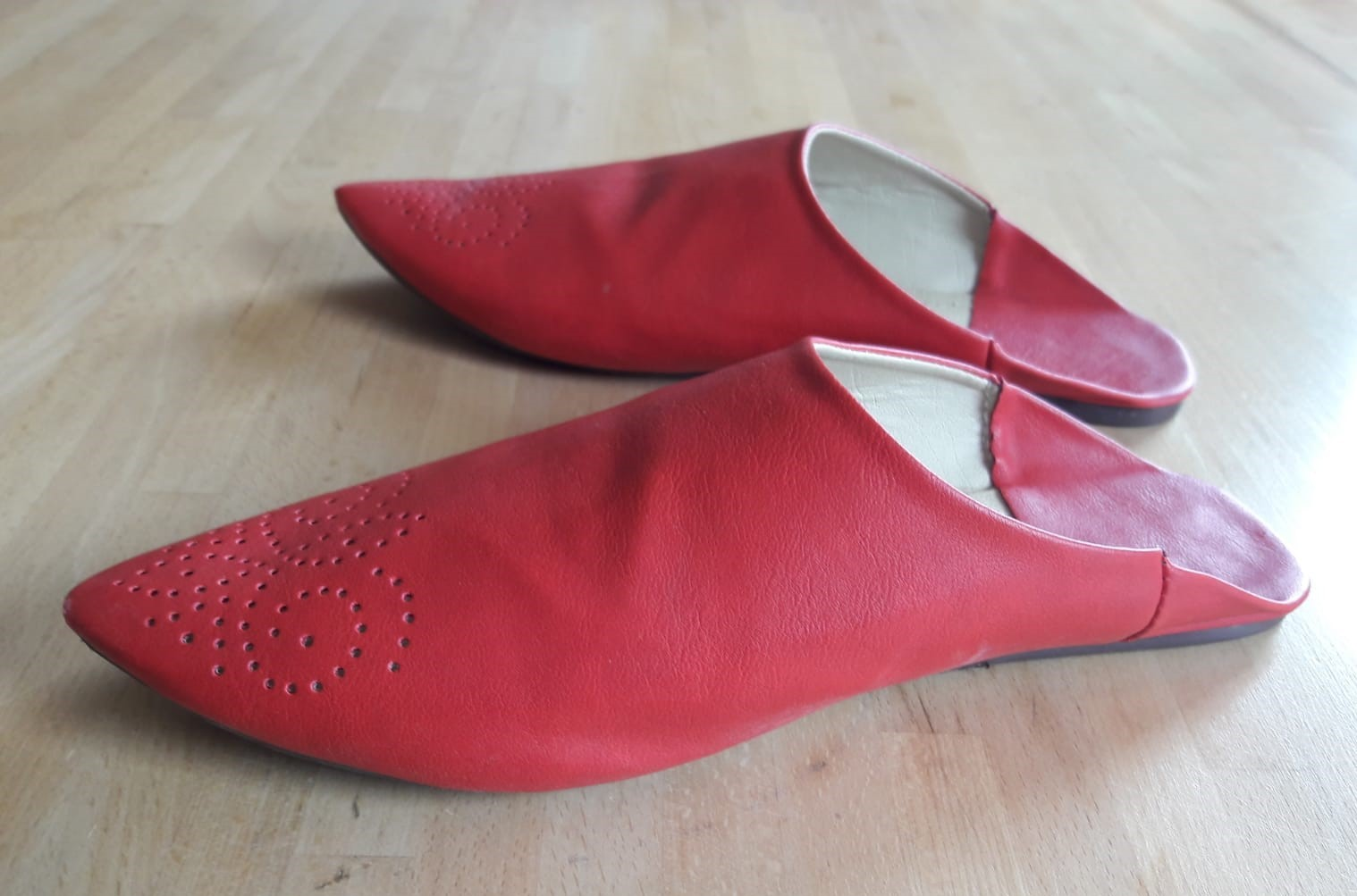 Traditional slippers from Morocco